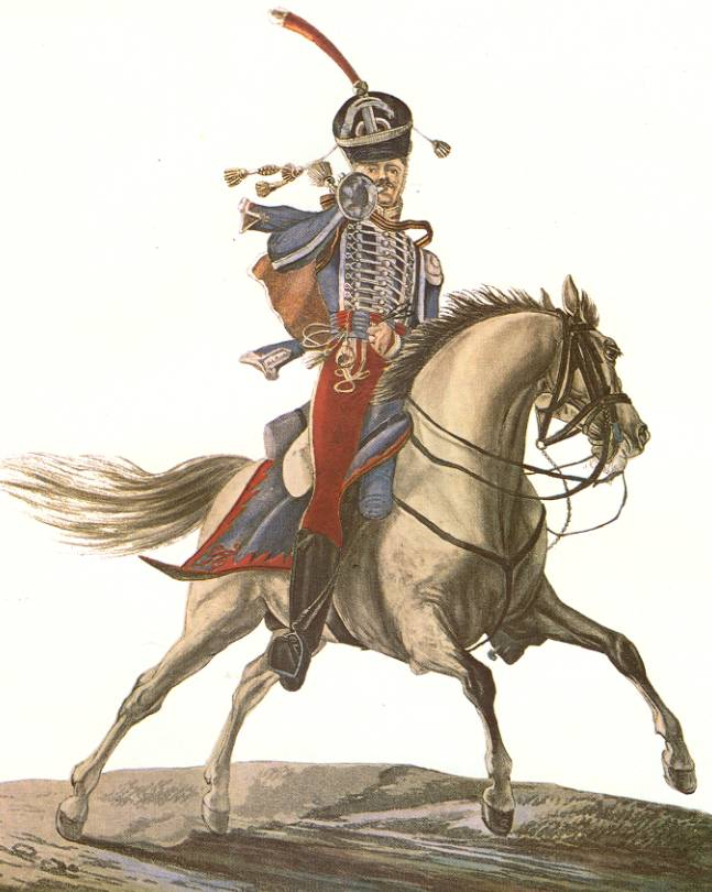 Uniform Staff-bugler of the 1st Sumy Hussar Regiment, 1812, design by Lev Kiel.